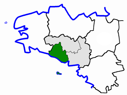 Map for localisazion of arrondissements of Brittany, in France